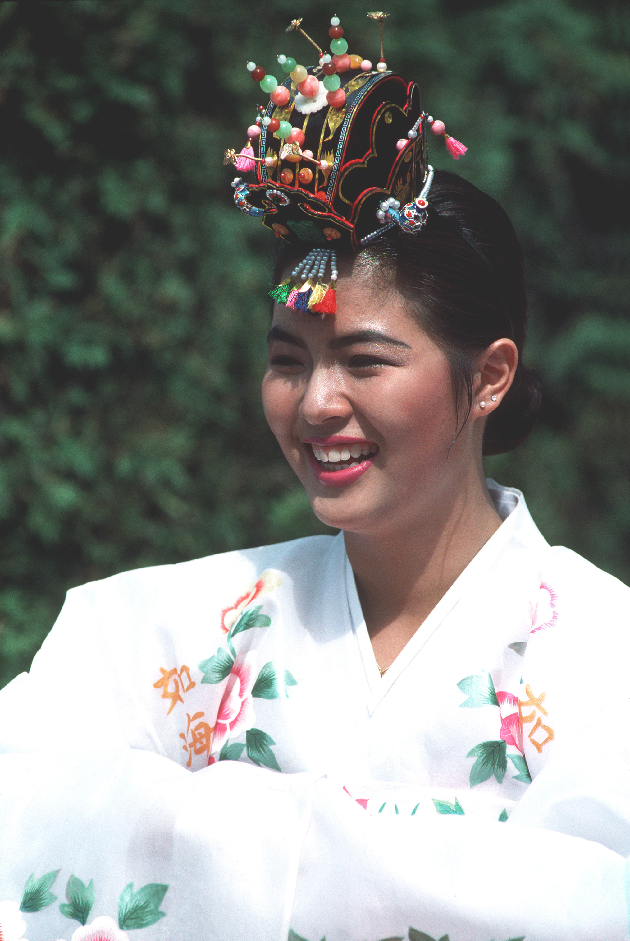 A South Korean volunteer at the XXIVth Olympiad.